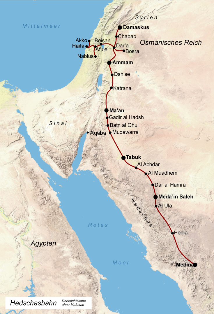 Overview Map of the Hejaz (Damascus-Mecca) railway of the late Ottoman period